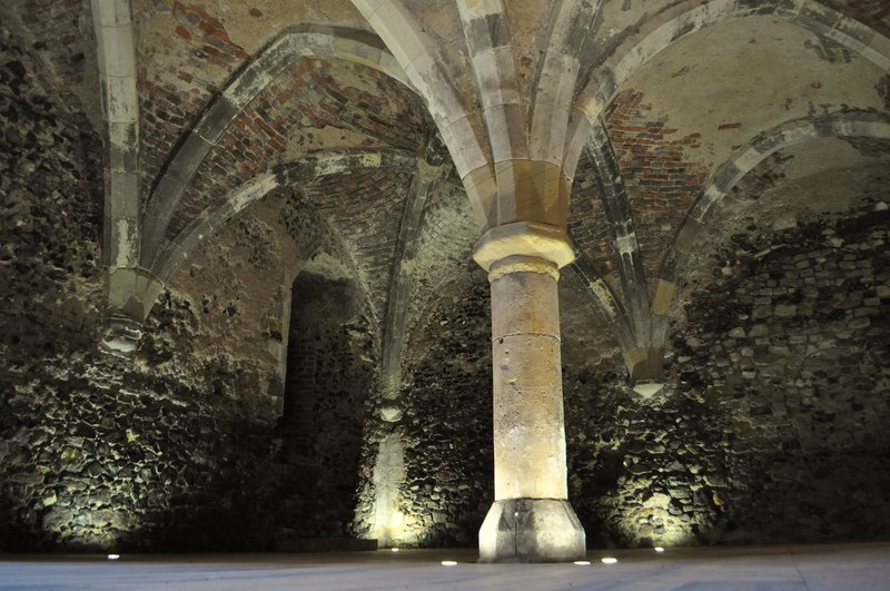 Langley Abbey - Cellarium, near to Langley Street, Norfolk, Great Britain. The impressive restored Cellarium, inside are lights to highlight the room. Nothing like it would have been like but I quite liked the feel. See also TM4599 : St Olaves Priory 13th Century Undercroft TG3602 : Langley Abbey